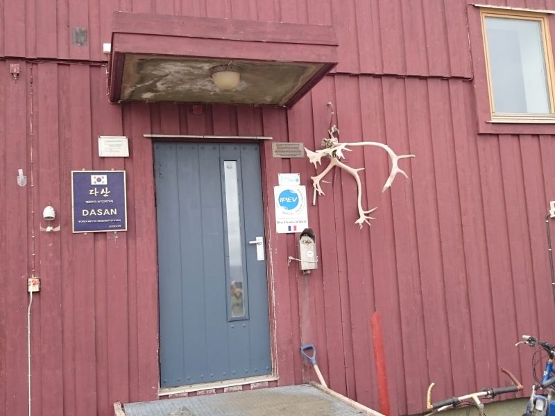 Ny-Ålesund, la base française Paul-Emile Victor